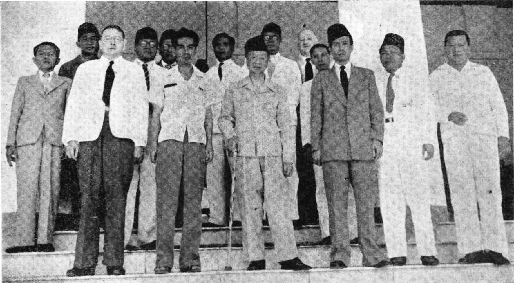 Group photo of the Adil Cabinet and the First Djumhana Cabinet after the installation of the First Djumhana Cabinet.First Row, left to right: High Commissioner of the Crown in the State of Pasundan R.W. van Diffelen, Prime Minister in the First Djumhana Cabinet Djumhana Wiriaatmadja, Wali Negara of Pasundan Wiranatakusumah, Prime Minister in the Adil Cabinet Adil Puradiredja.